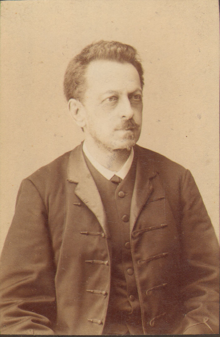 Antonije Tona Hadzic, Secretary and President of Matica Srpska, director of the Serbian National Theater in Novi Sad, and editor-in-chief of the Matica Srpska Letopis